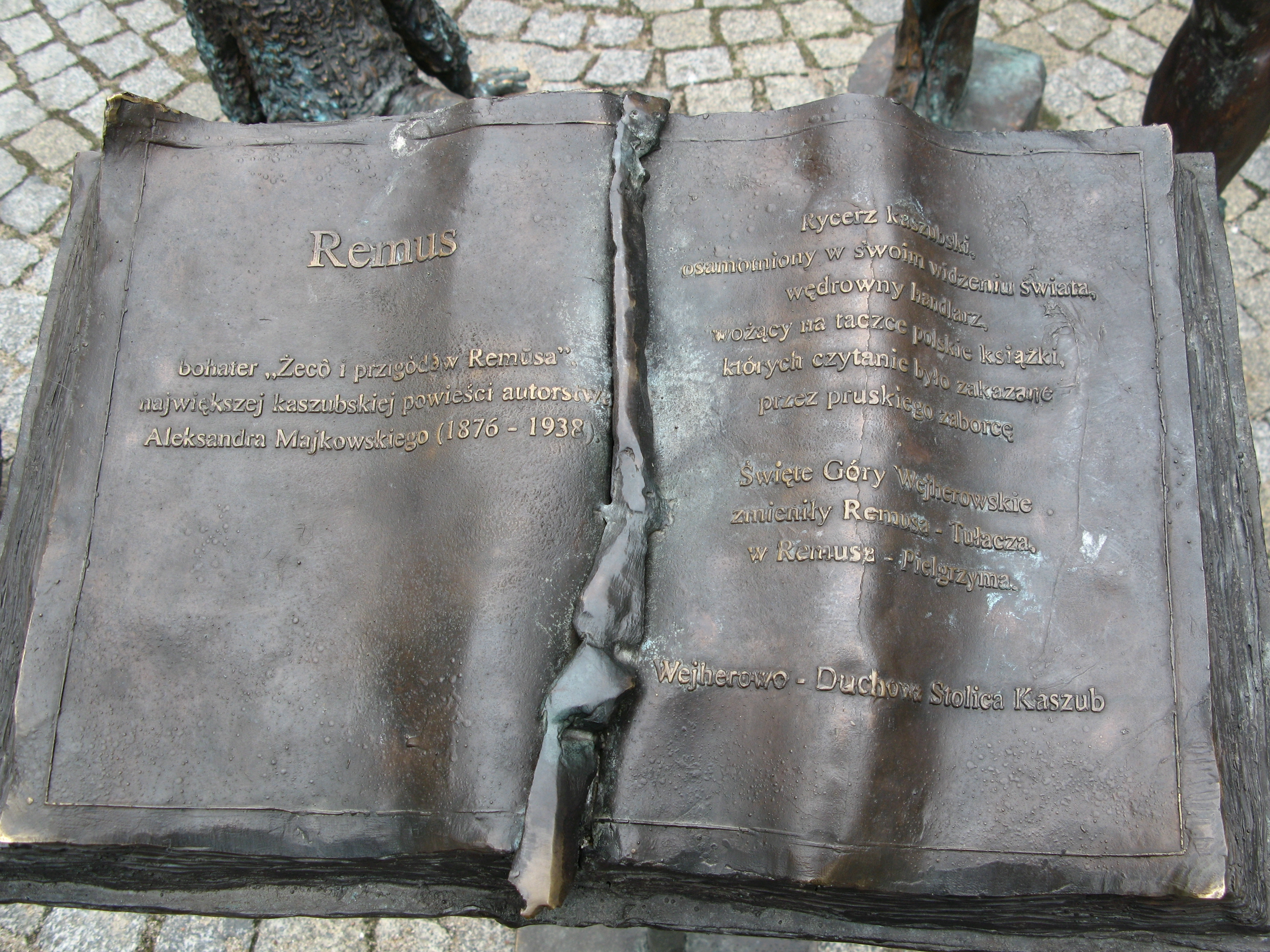 Remus sculpture in Wejherowo - detail